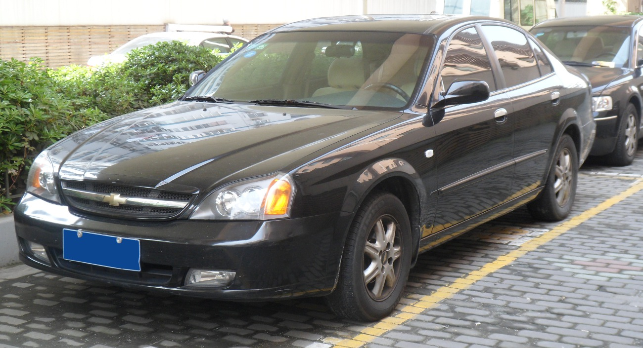 Chevrolet Epica V200 photographed in Shanghai, China.